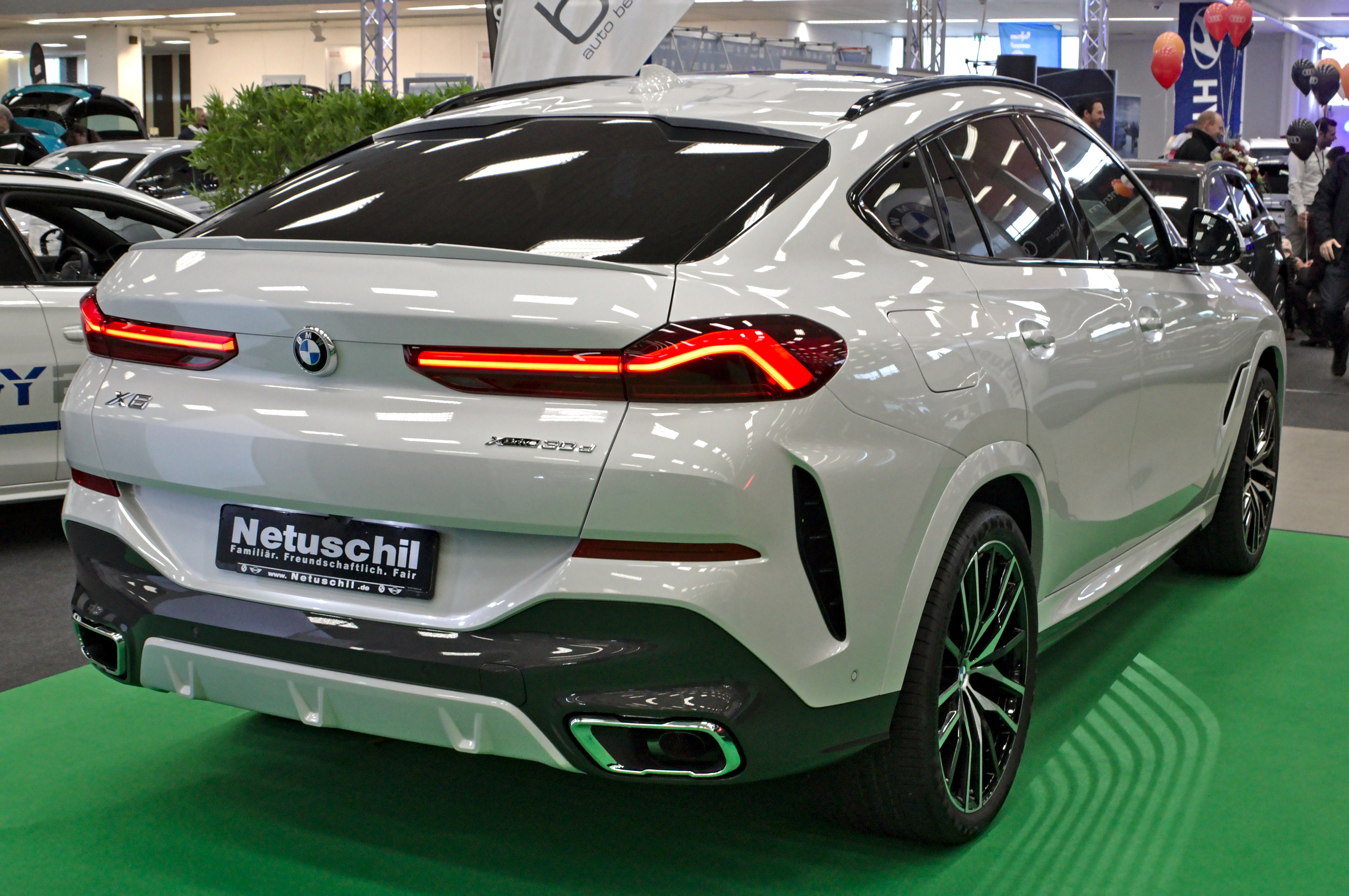 BMW_G06_Sindelfingen_2020